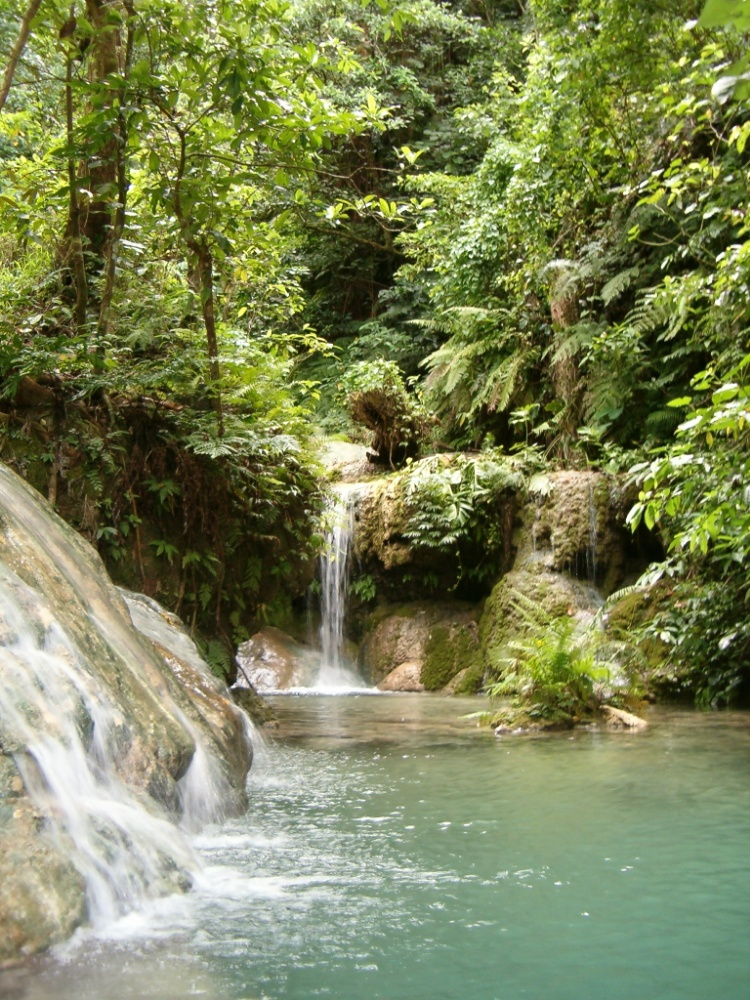 A small waterfall in Mele, Vanuatu.